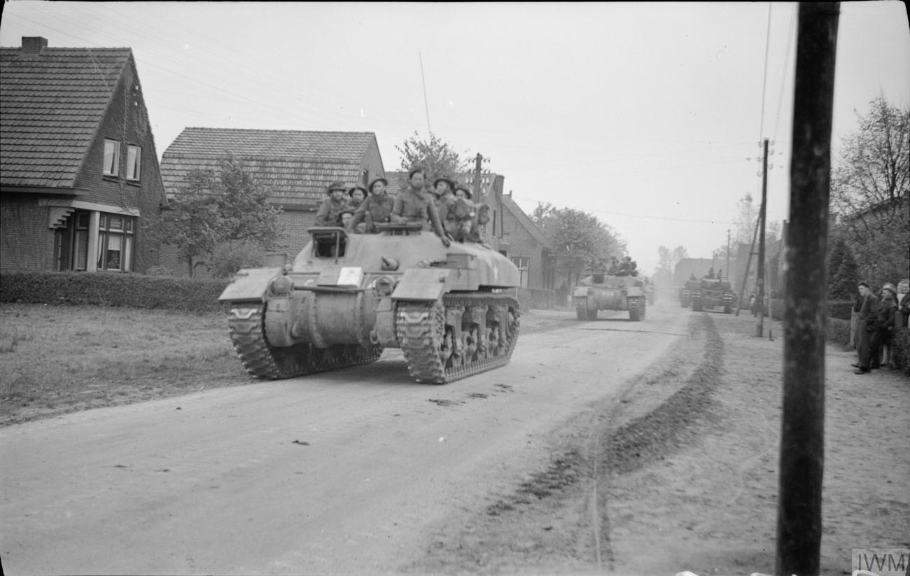 The British Army in North-west Europe 1944-45 Kangaroos carrying men of the 7th Seaforth Highlanders in Moergestel, 26 October 1944.